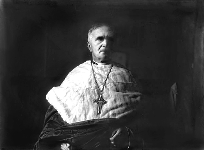 Cardinal MacRory (former Bishop of Down and Connor) pictured on his first official visit to Belfast. The quality of this photo is not good, but the contrasts of light and shade work, I think. This is an extract from the Irish Independent's solemn report on the Cardinal's visit to Belfast: "Lasting monuments to his self-sacrificing work exist on every side, but that which his Eminence may well value more than anything else is the respect and affection of the people whose shepherd he was during a period of bitter persecution. Happily the days of the pogrom have passed, but not yet has the dawn of even-handed justice come to brighten the lot of the Northern Catholics ... Truly, as was said, it is a terrible thing that in a Christian country, even as in Russia, people should be made to suffer because of their religion." Date: 7 October 1930 NLI Ref.: IND_H_1411